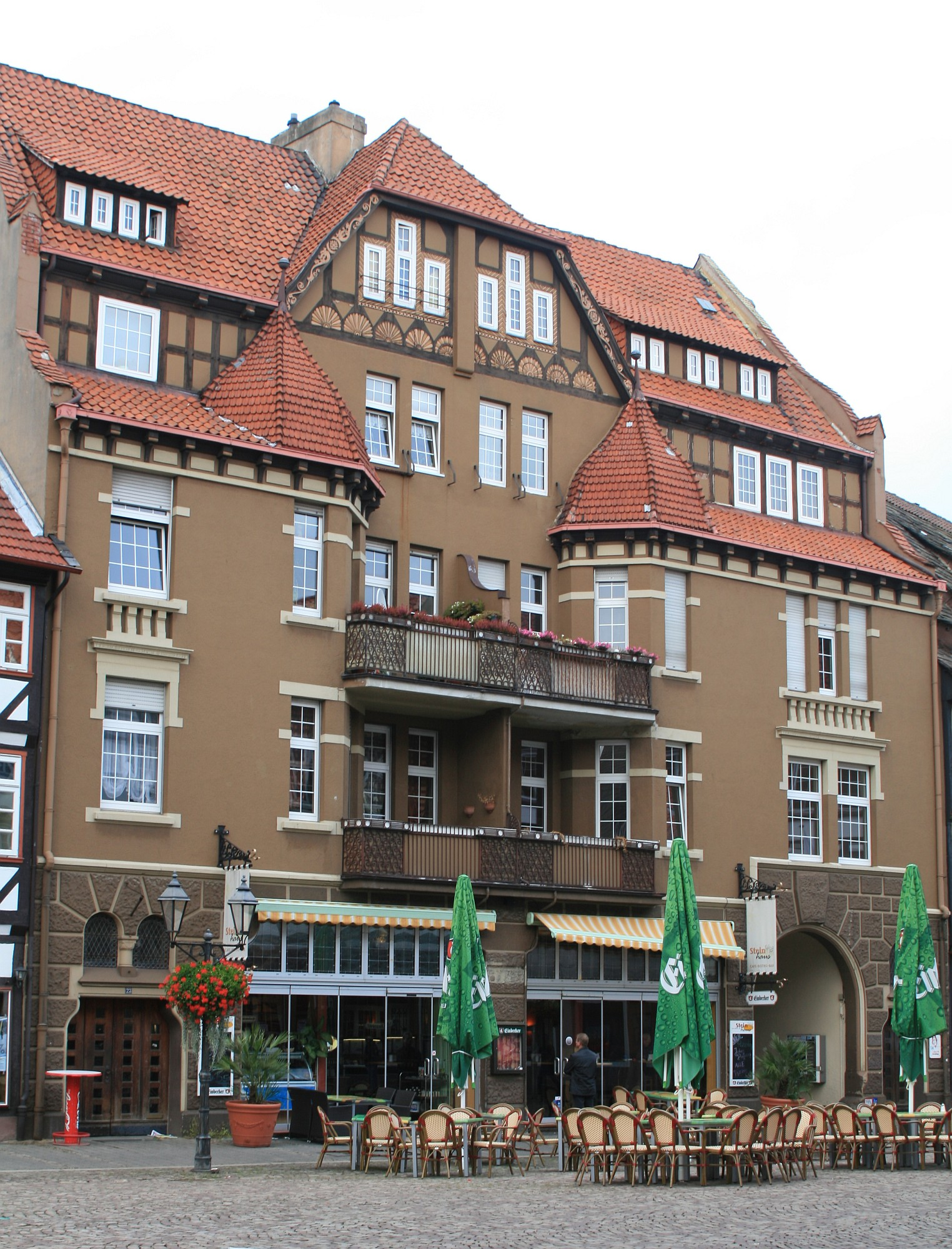 House Marktplatz No. 23 in Einbeck (Germany)